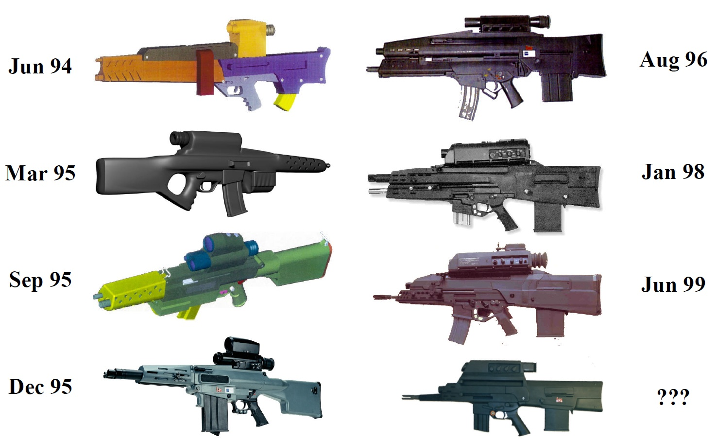 development history of the OICW concepts